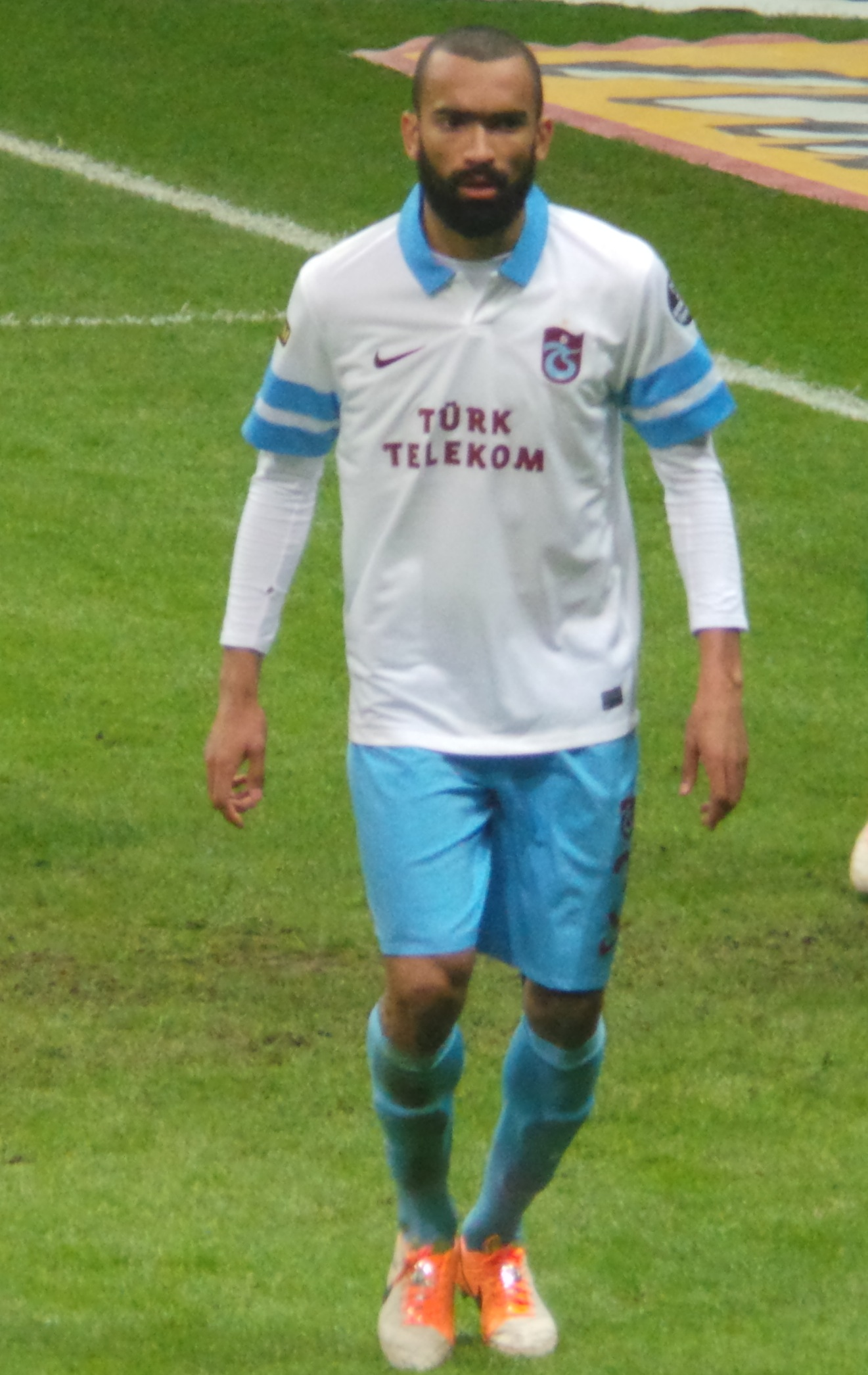 José Bosingwa